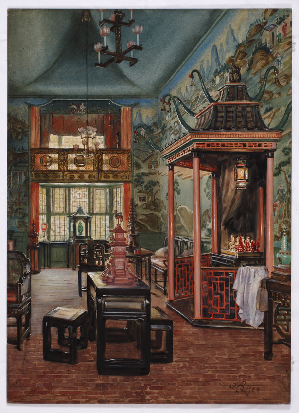 Interior view of the China Trade Room at Beauport, Sleeper-McCann House as it appeared during Henry Davis Sleeper's lifetime. Watercolor on paper.